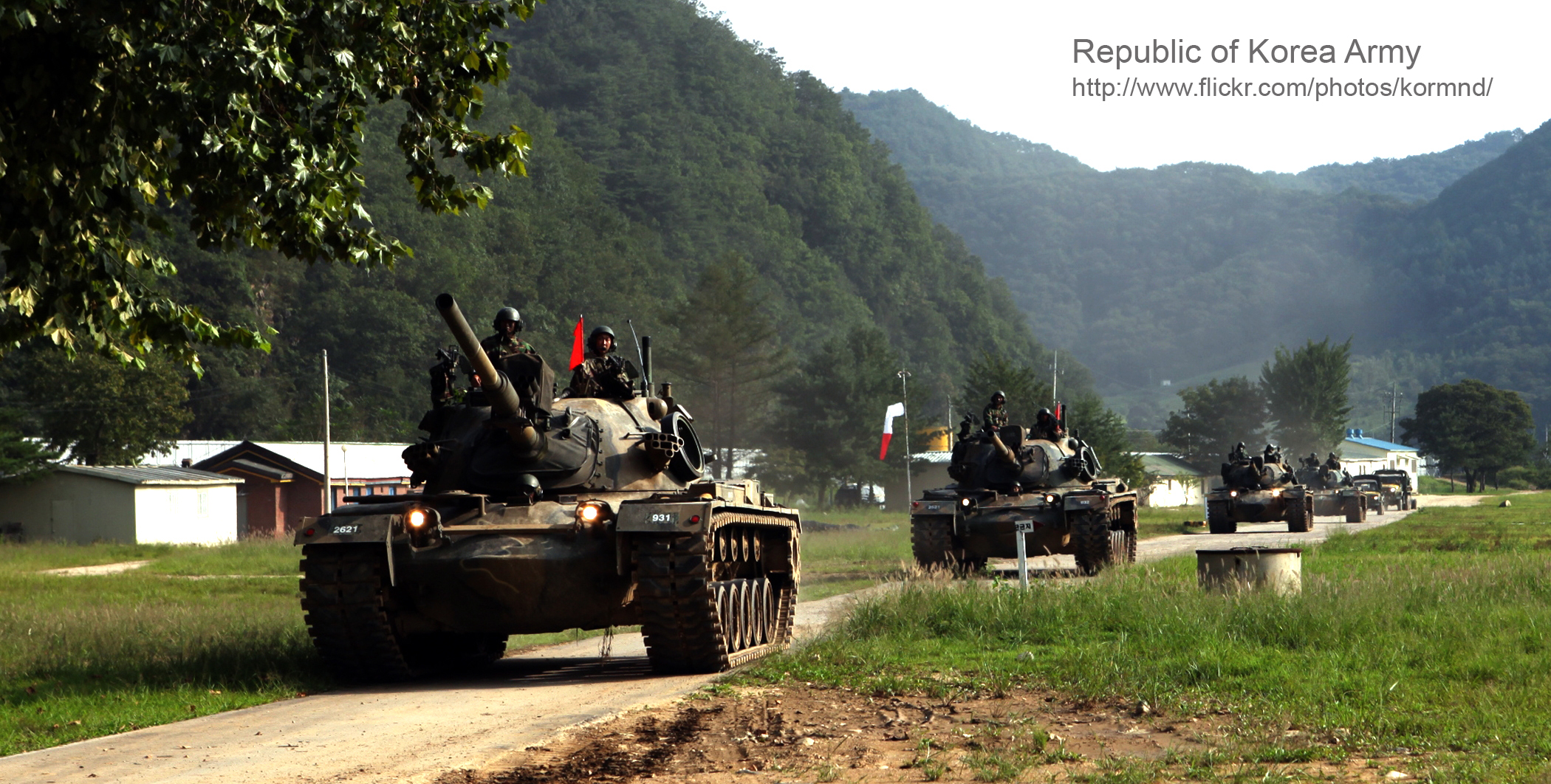 Rep.of Korea Army 7th Division